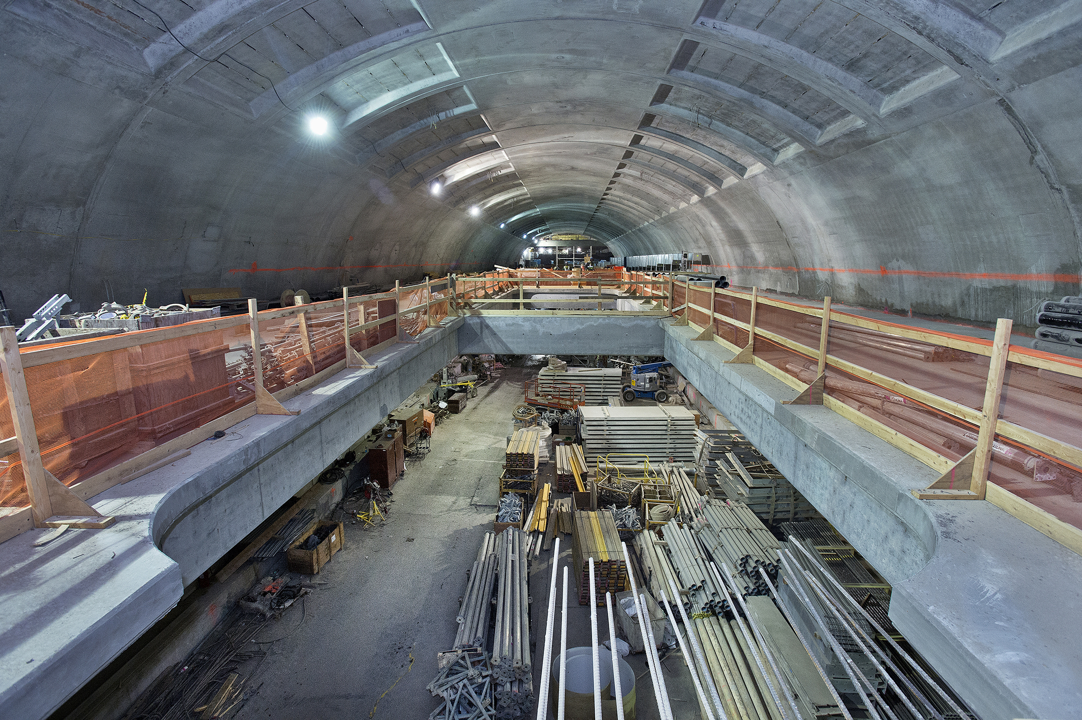 Walkthrough of progress at 96th Street Station of the Second Avenue Subway project. Photo: Metropolitan Transportation Authority / Patrick Cashin